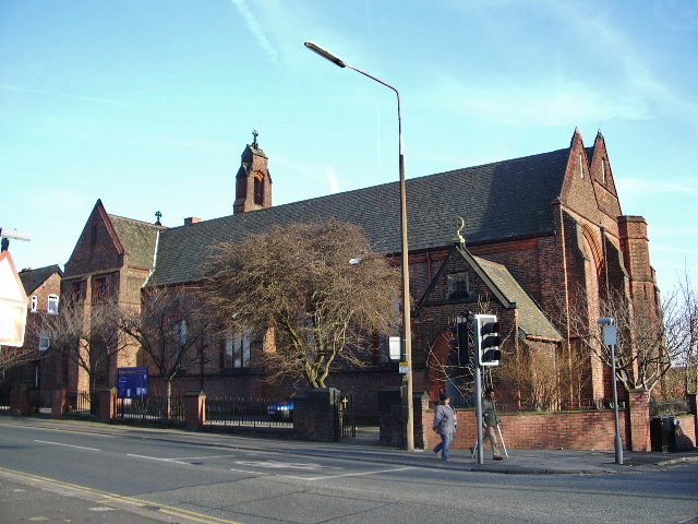 St James' Church, Higher Broughton, Salford